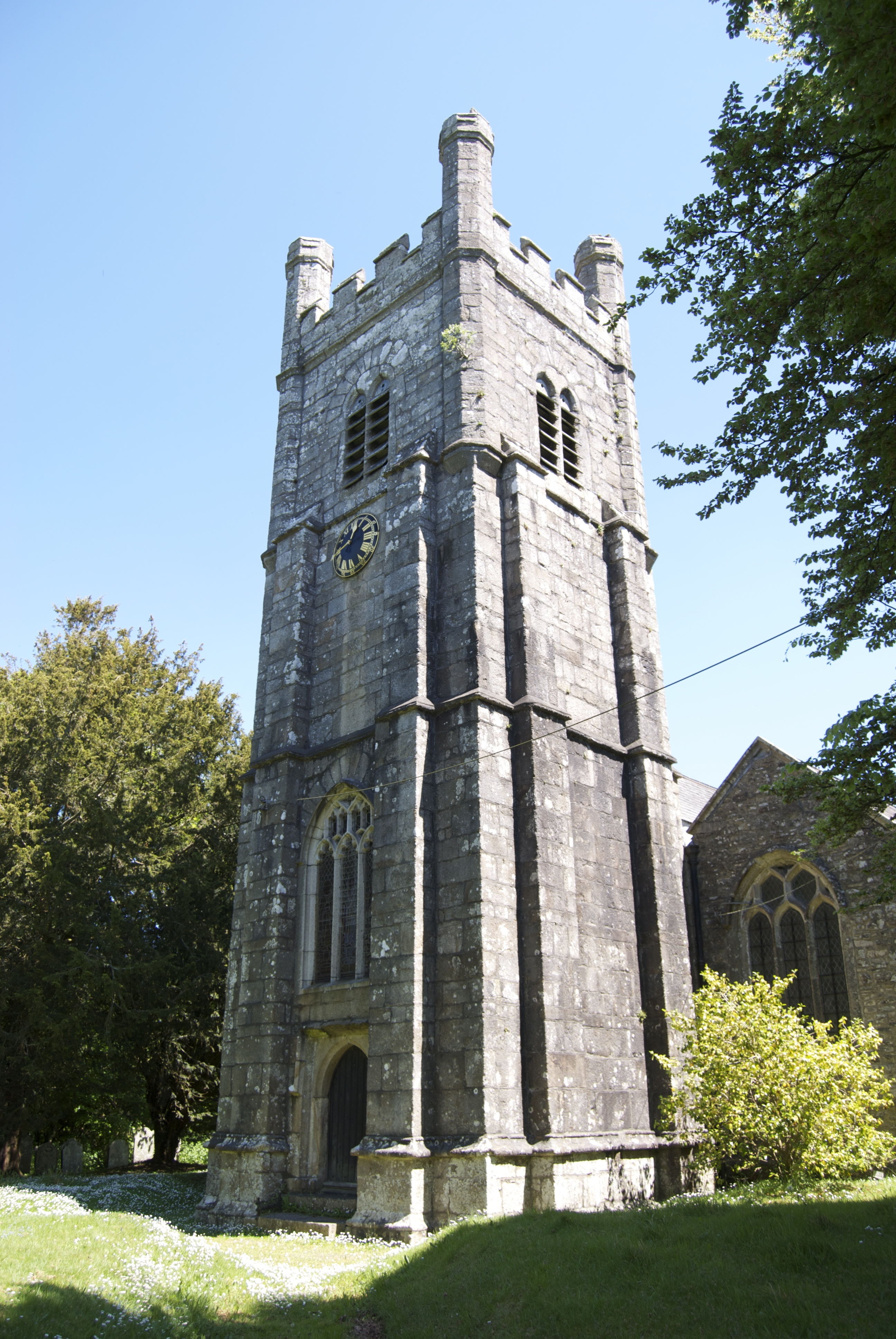 St Andrew's Church, Calstock